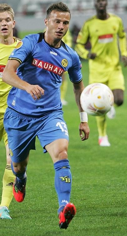 Elsad Zverotić playing for BSC Young Boys.